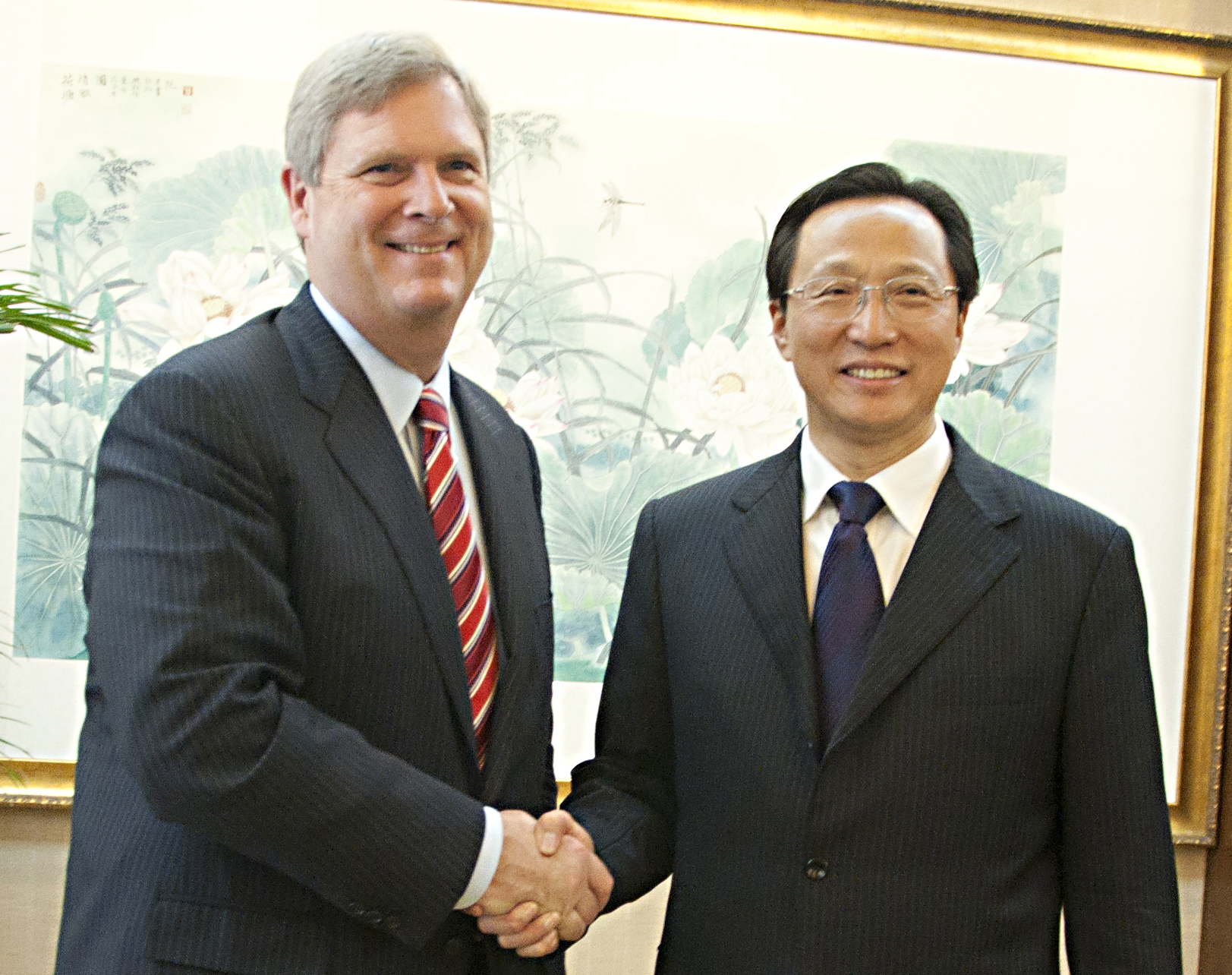 Agriculture Secretary Tom Vilsack (left) meets with Chinese Minister of Science and Technology Wan Gang in Beijing, China, on November 10, 2011.